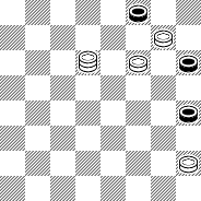 zadacha (compositiom) in russian checkers.